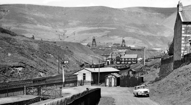 Blaengarw Station (remains). View NW to surviving collieries at head of Garw Valley, but this terminus of the branch from Bridgend and Tondu had been closed to passengers for over nine years (9/2/53). Nowadays (2010)the heritage Garw Railway is active down the valley at Pontycymmer.